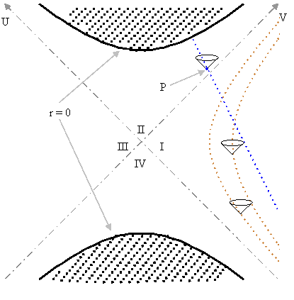 Kruskal diagram for the Schwarzschild space-time with some light cone